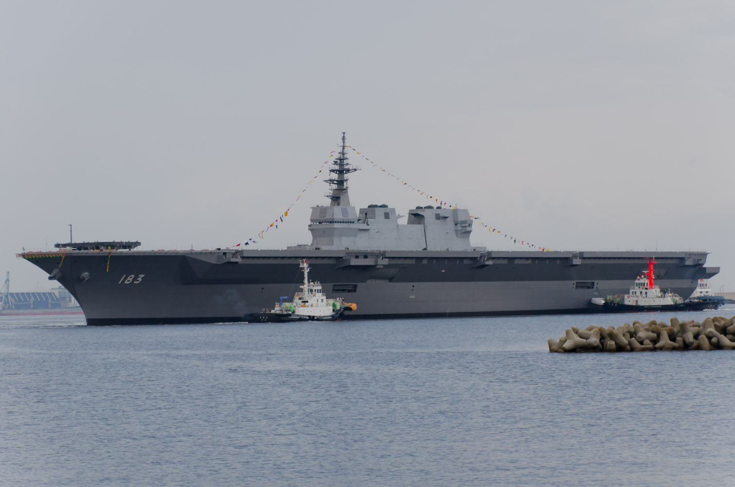 JS Izumo (DDH-183) just after her launch.